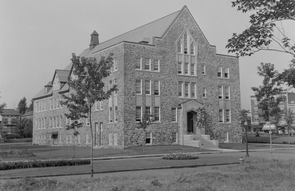 We see the College Stanislas at 780 Dollard Avenue in Outremont.